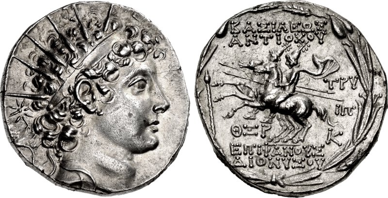 SELEUKID EMPIRE. Antiochos VI Dionysos. 144-142 BC. AR Tetradrachm (27.5mm, 16.94 g, 1h). Apameia on the Orontes mint. Dated SE 169 (144/3 BC). Radiate and diademed head right; star to left / The Dioskouroi riding left, holding couched lances; thyrsos to left; to right, TPY above IΠ above K; ΘΞP (date) below; all within wreath of laurel, ivy, and grain ears. SC 2010.4c; Houghton, Revolt, Group XIII, – (unlisted dies); HGC 9, 1032. Superb EF, lightly toned, underlying luster, minor marks. Bold portrait. Very rare. Ex Roma XIII (23 March 2017), lot 449.